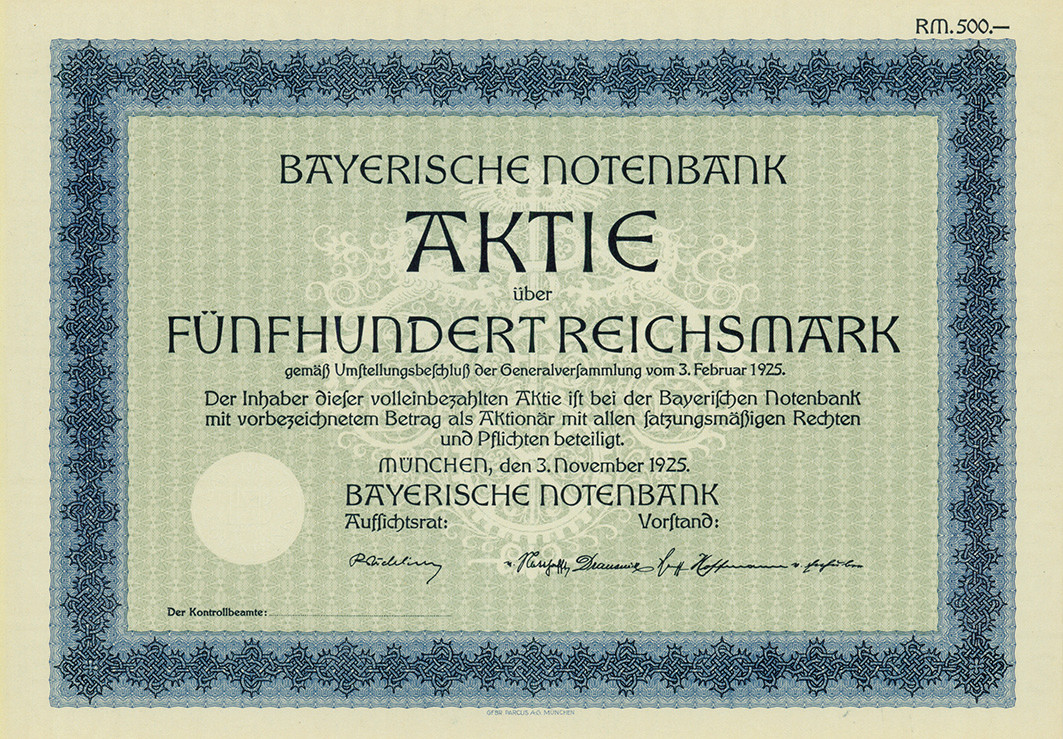 Share of the Bayerische Notenbank, issued 3. November 1925